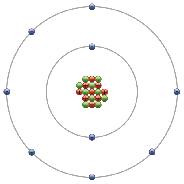 The atomic structure of fluorine